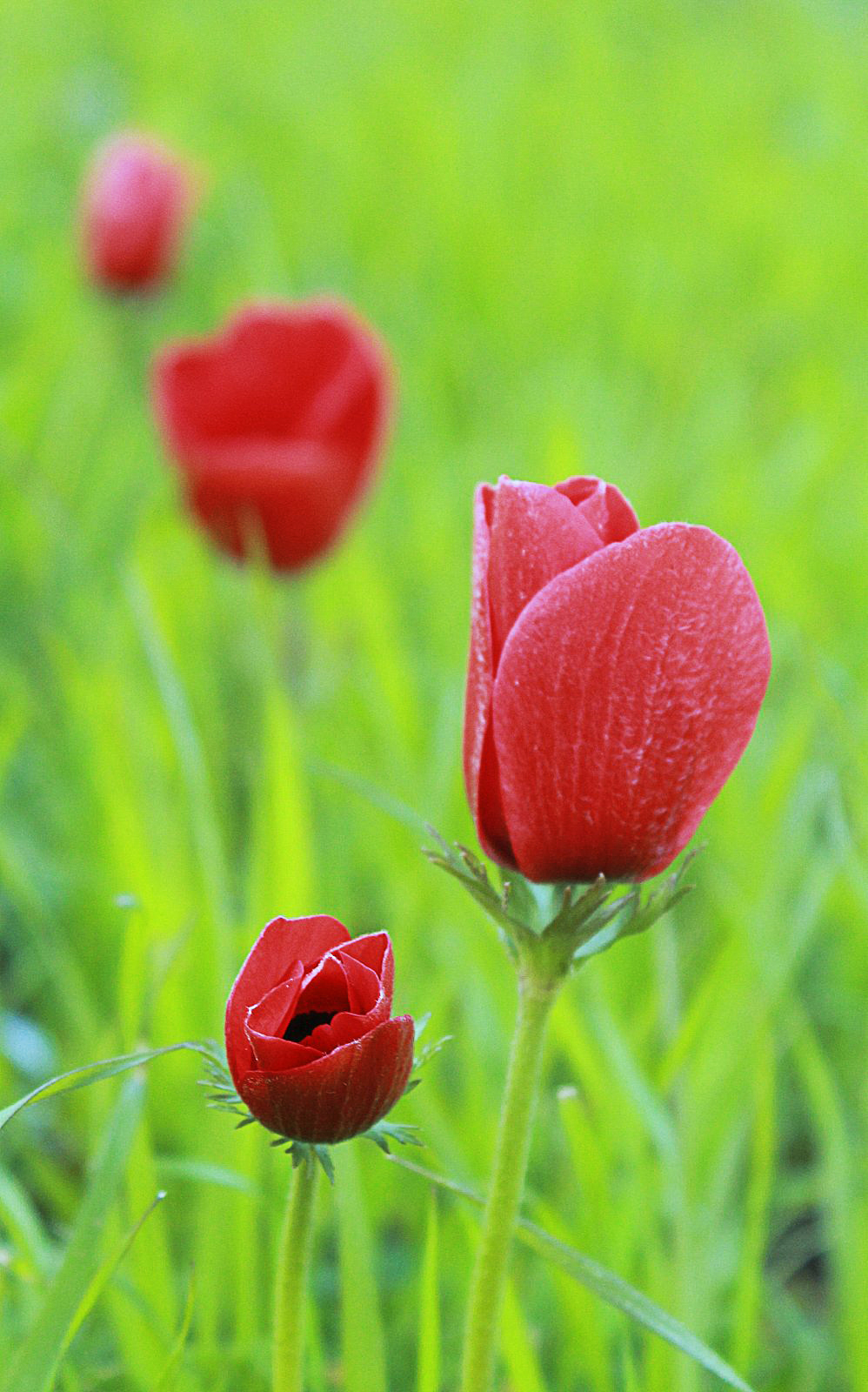 כלניות בישראל